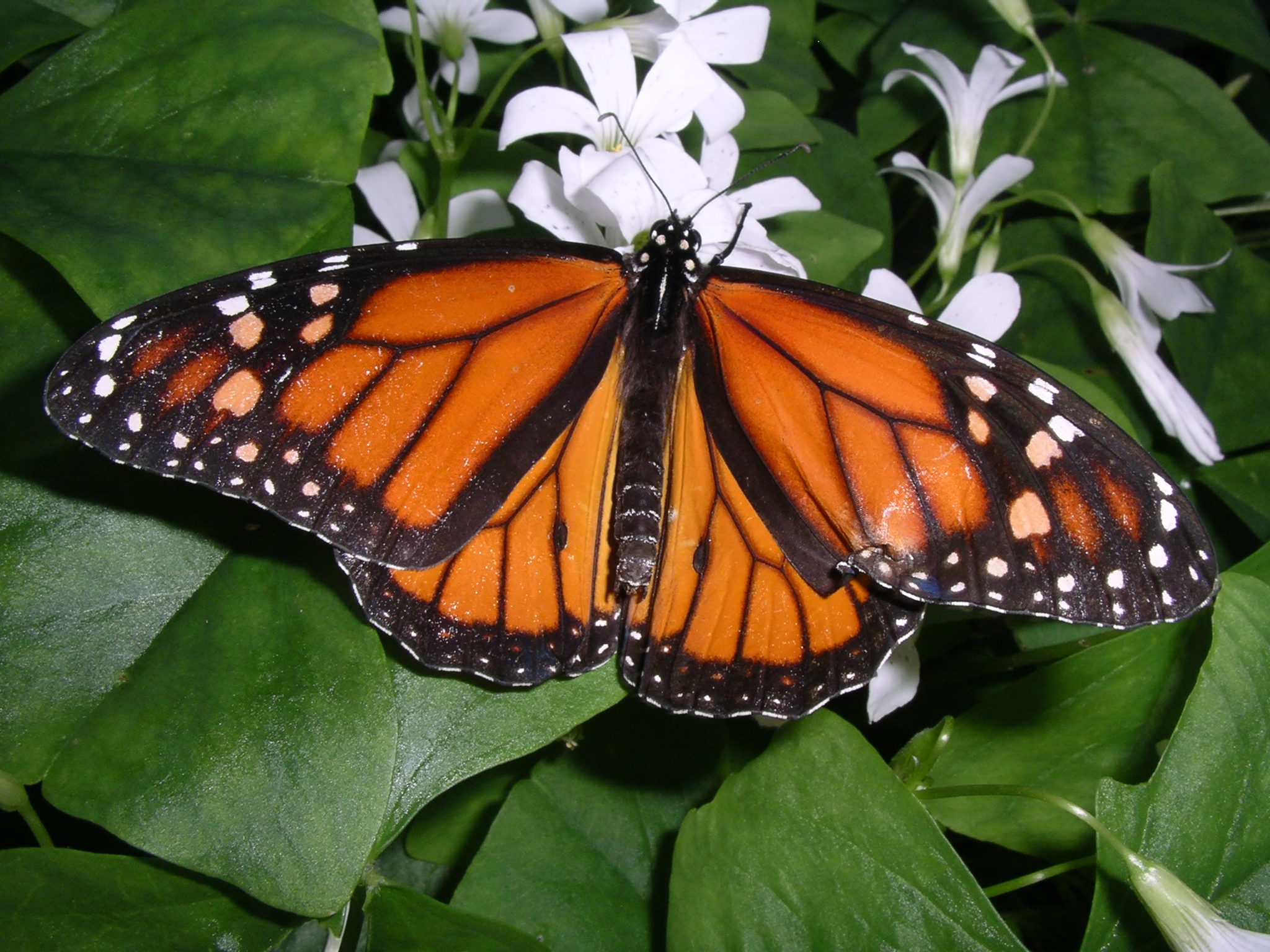 Monarch butterfly, Danaus plexippus Photo taken at the Boone Hall Plantation, Charleston, South Carolina, USA. For more information on this butterfly, check out wiki's page on the Monarch butterfly. Pour plus d'information sur ce papillon, visitez le wiki sur le papillon Monarque.